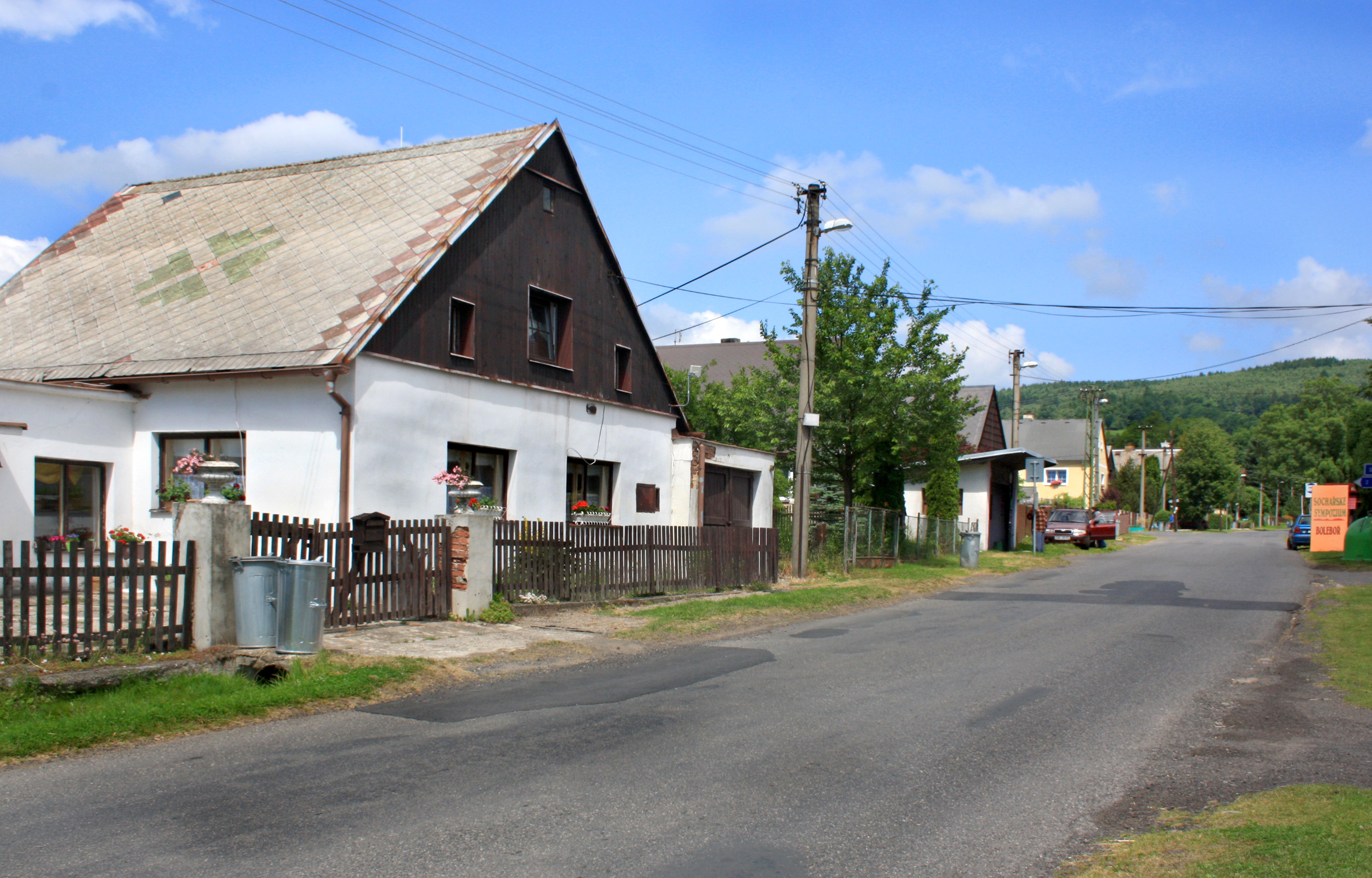 Main street in Boleboř, Czech Republic